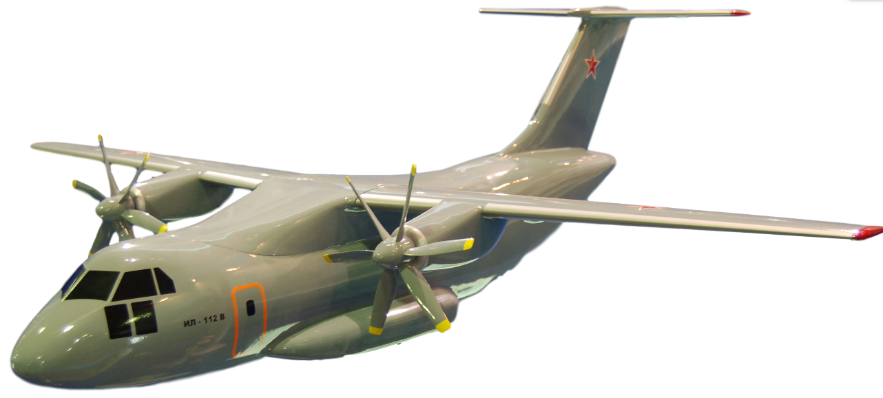 Ilyushin Il-112 mockup, background clipped with